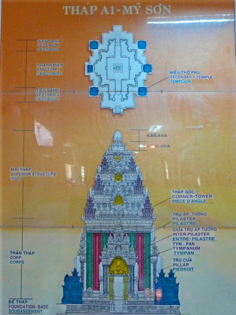 This photo was taken at the Champa Museum in Da Nang, Vietnam. It is of a diagram of the great temple of Sanabhadresvara that had been at My Son since the 7th century, but that was bombed during the Vietnam War and is now a pile of rubble.